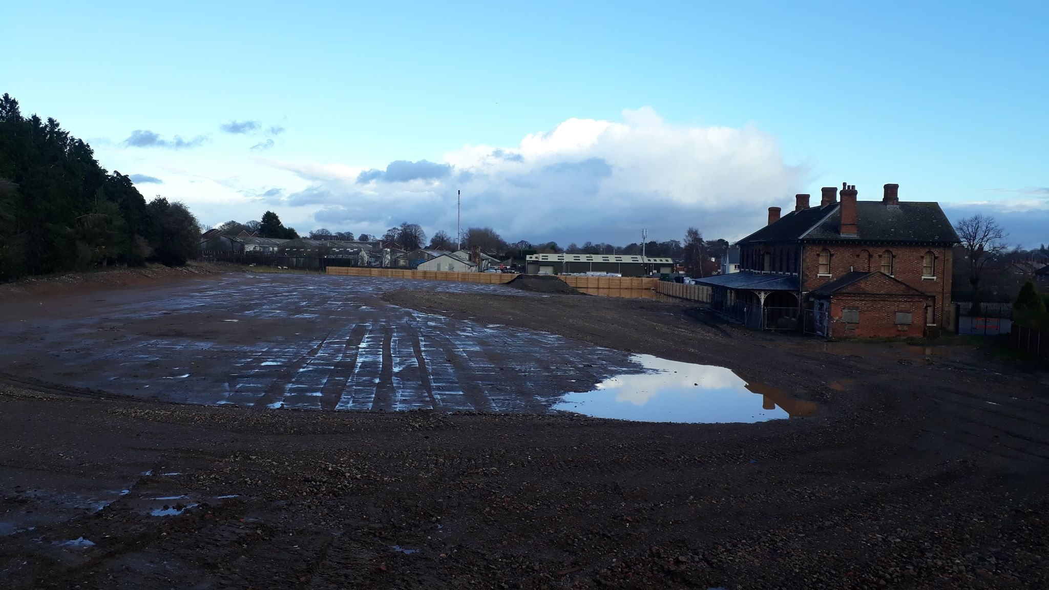 Ellesmere station site in 2018, I own the photograph. Any inquiries please